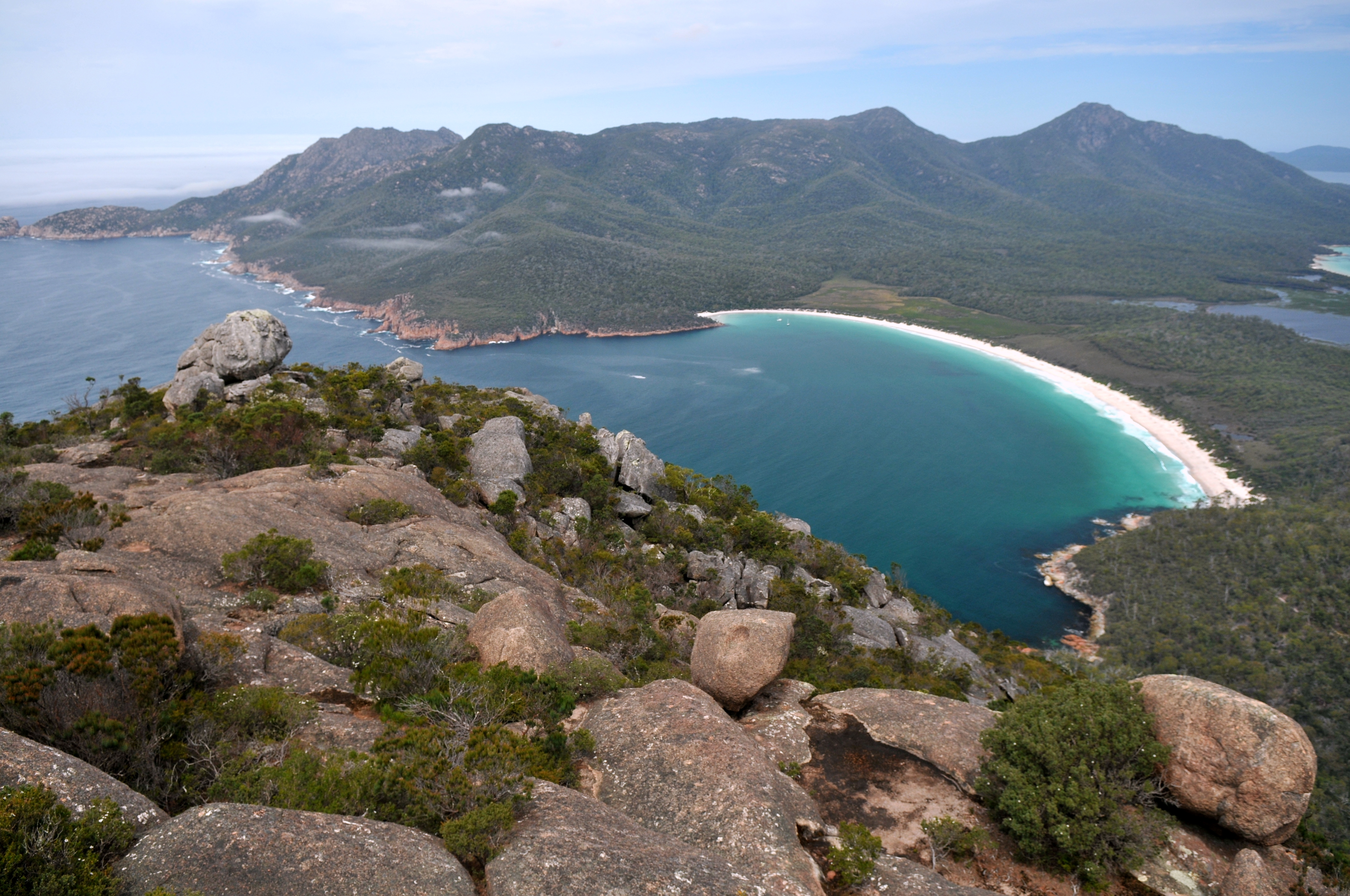 An uninterrupted vista of Wineglass Bay and The Hazards range, taken from the peak of Mt Amos, on the Freycinet Peninsula, Tasmania, Australia.